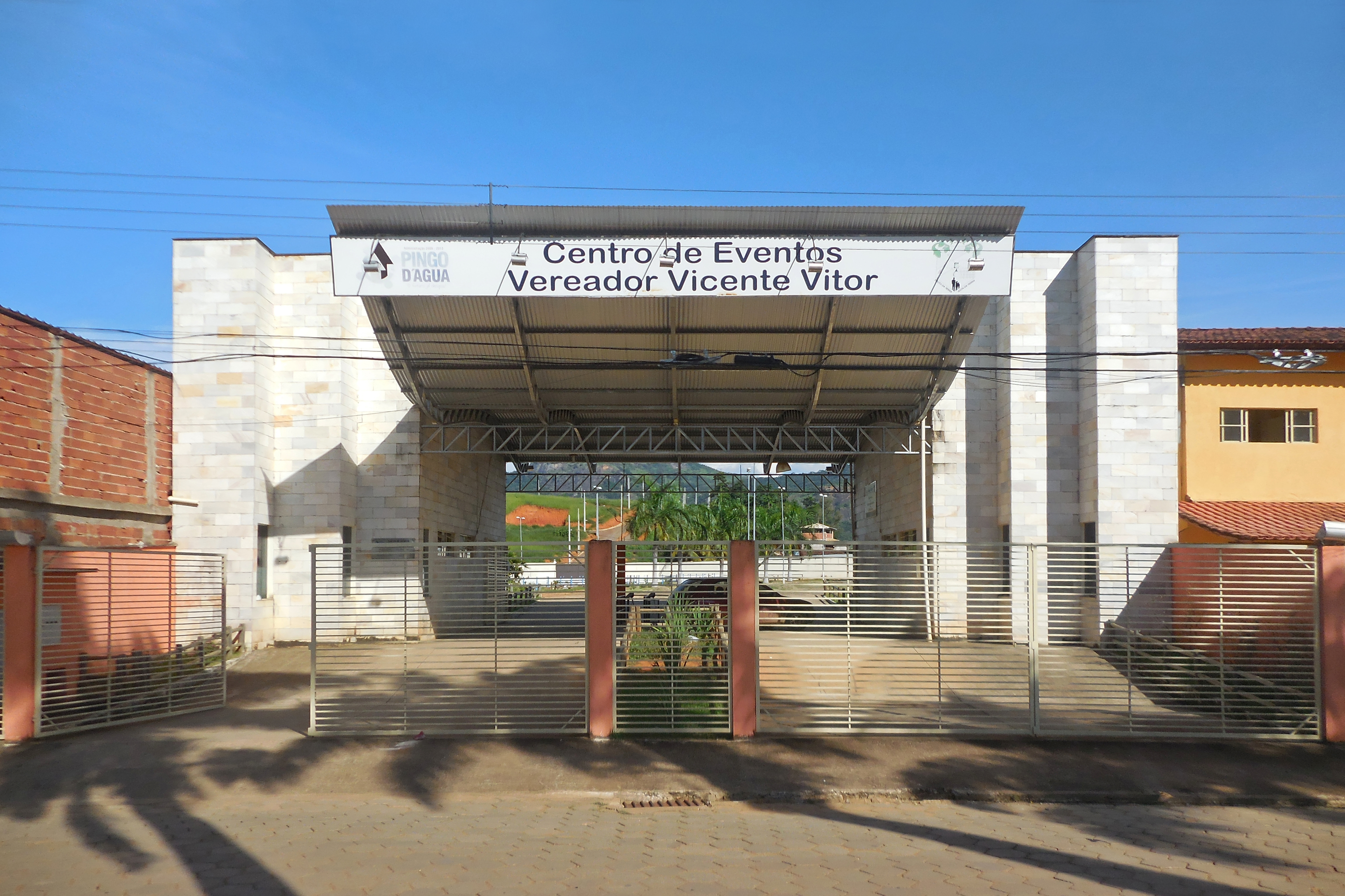 Front of the Vereador Vicente Paula Event Center, in Pingo-d'Água, Minas Gerais, Brazil.